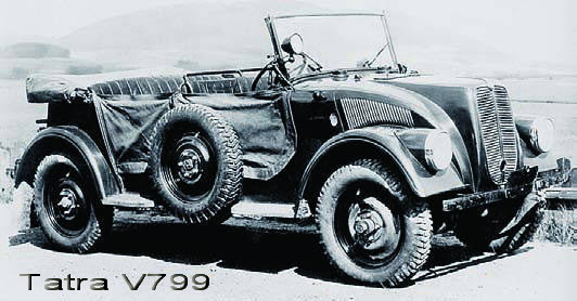 Tatra V 799 (T79) prototype.